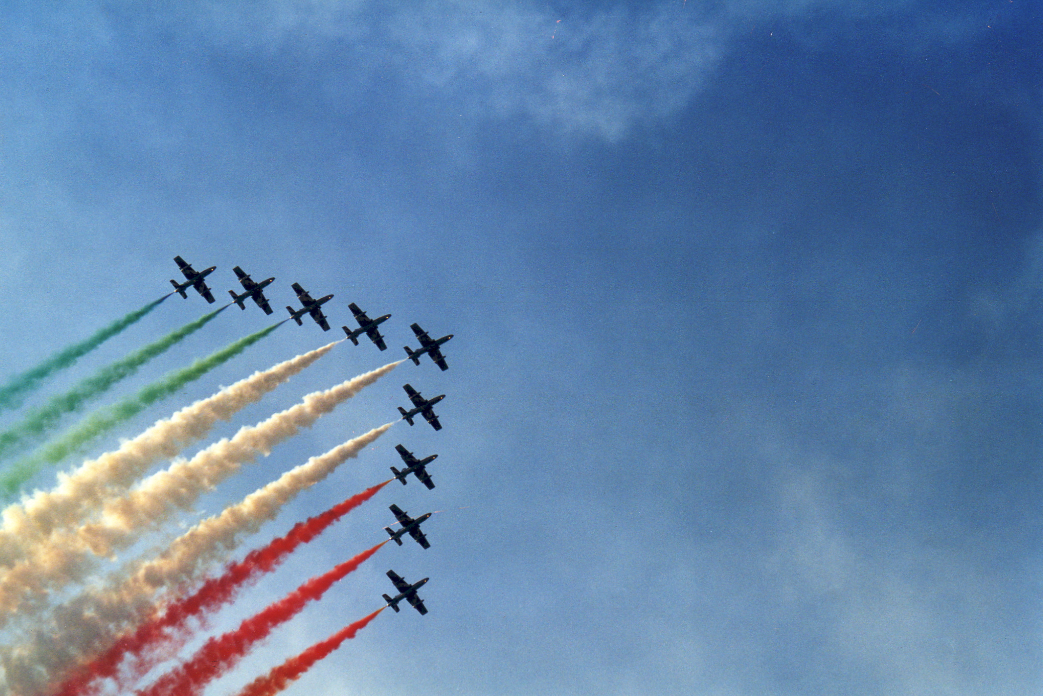 The final passage of the Italian acrobatic team "Frecce tricolori" during an air show at Rivolto Military Airport on september 2000.